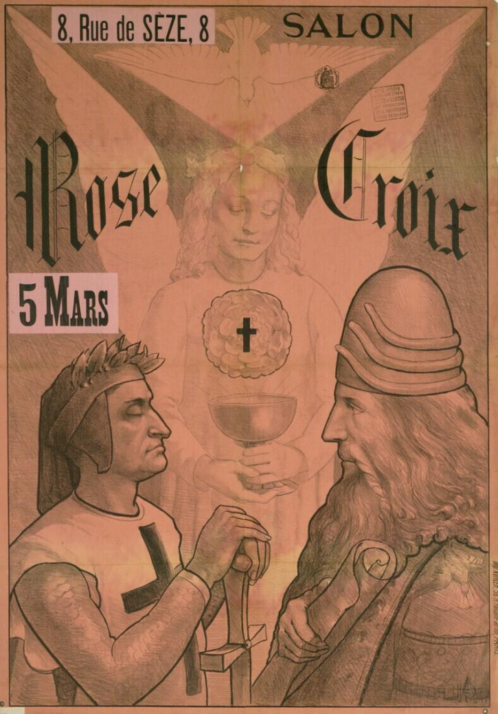 Salon Rose+Croix, 8 rue de Sèze, 5 mars, lithographic poster printed in Paris by Imprimerie Kohler. Dim.: 920 mm x 640 mm.